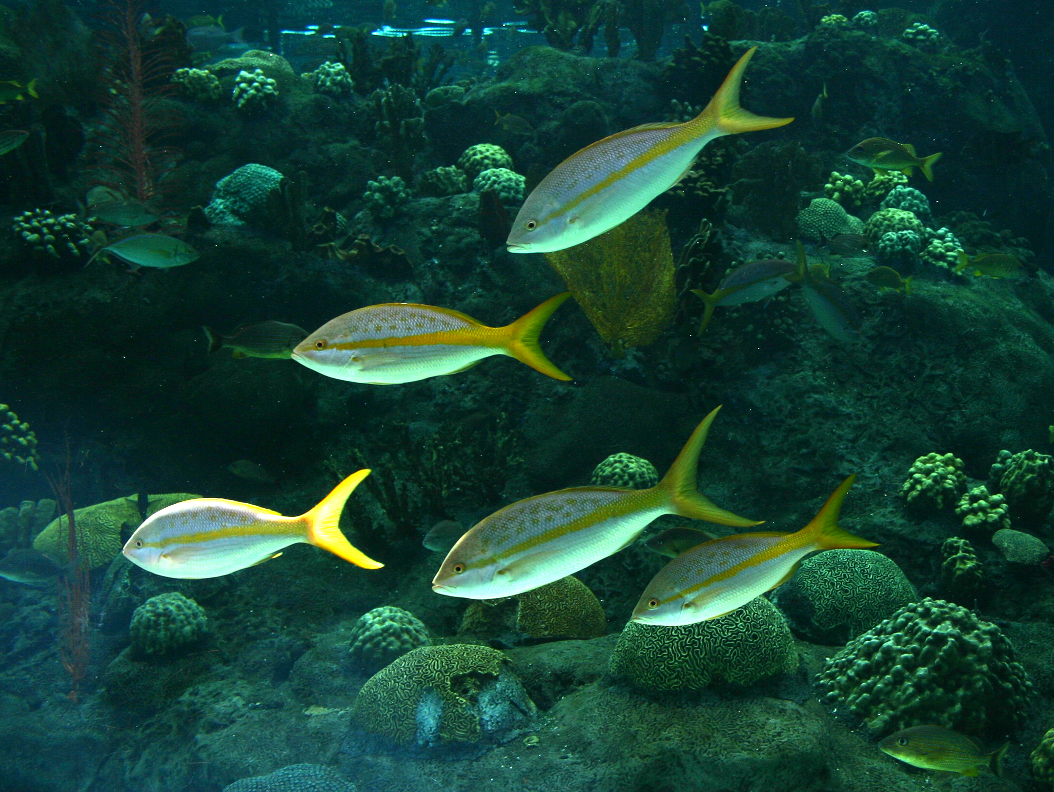 Florida Aquarium in Tampa, Florida Ocyurus chrysurus